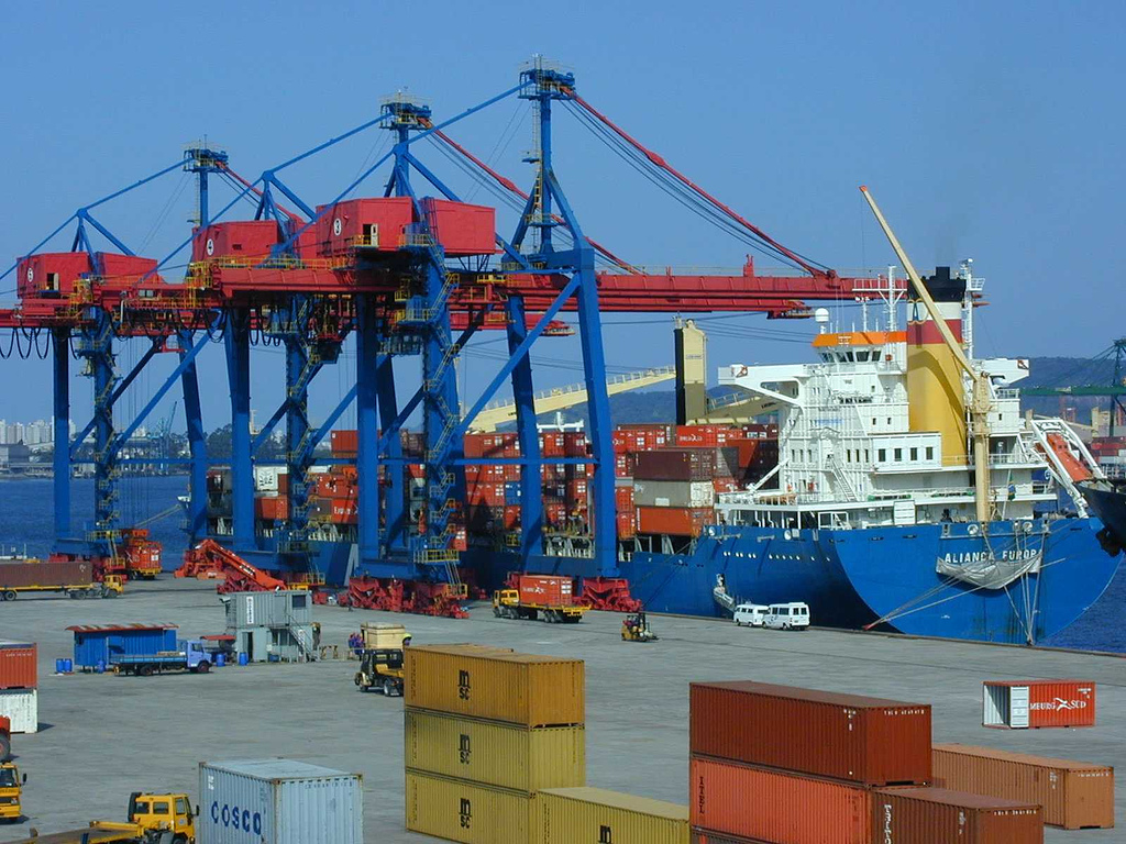 SBSA TECON, Port of Santos, Brasil, with the ALIANCA EUROPA IMO Number: 9000742 MMSI Number: 710045000 Callsign: PPSV Length: 200 m Beam: 32 m